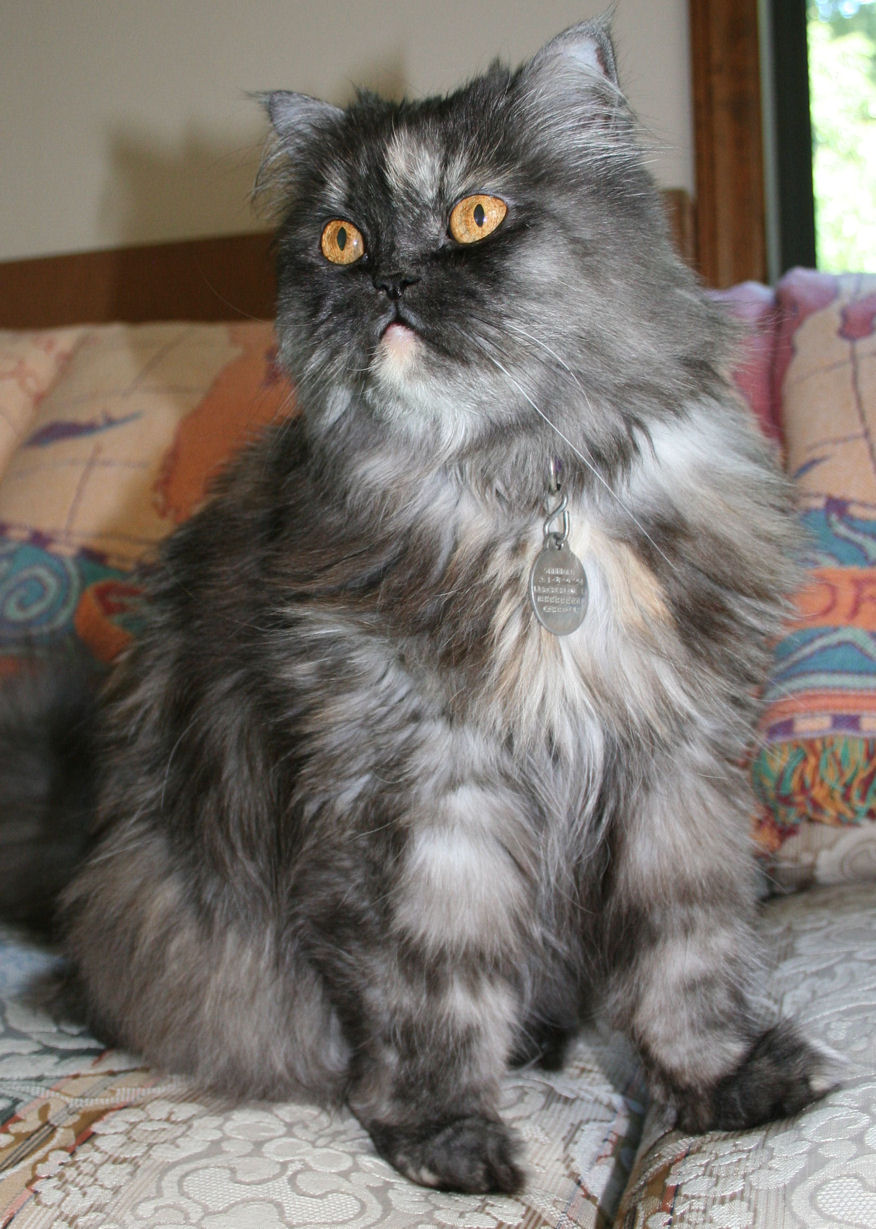 Stephanie is a Persian cat.